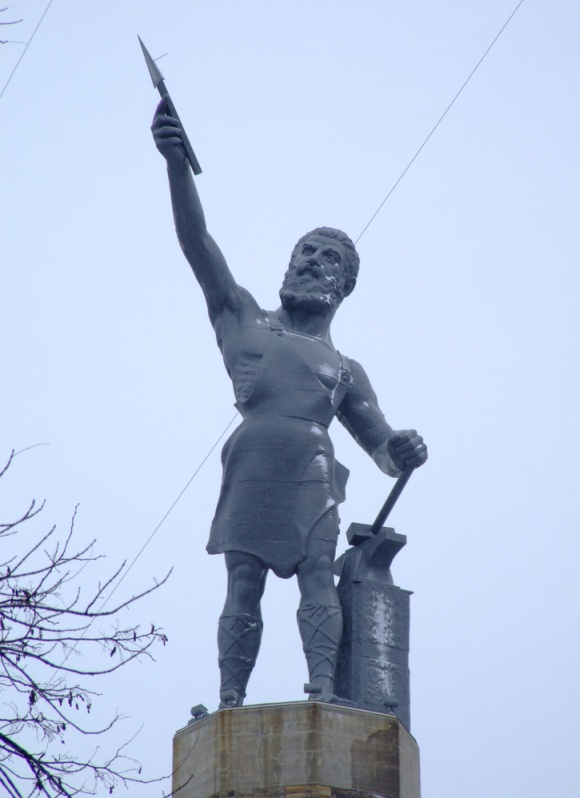 Vulcan, the largest cast iron statue in the world, located in Birmingham, AL, lightly dusted with the first snow of 2008.